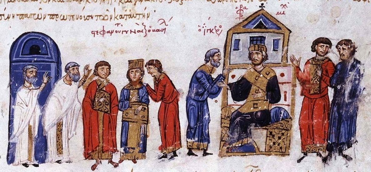 Byzantine Emperor Michael III weds Emperor Basileois I and Empress Eudokia Ingerina